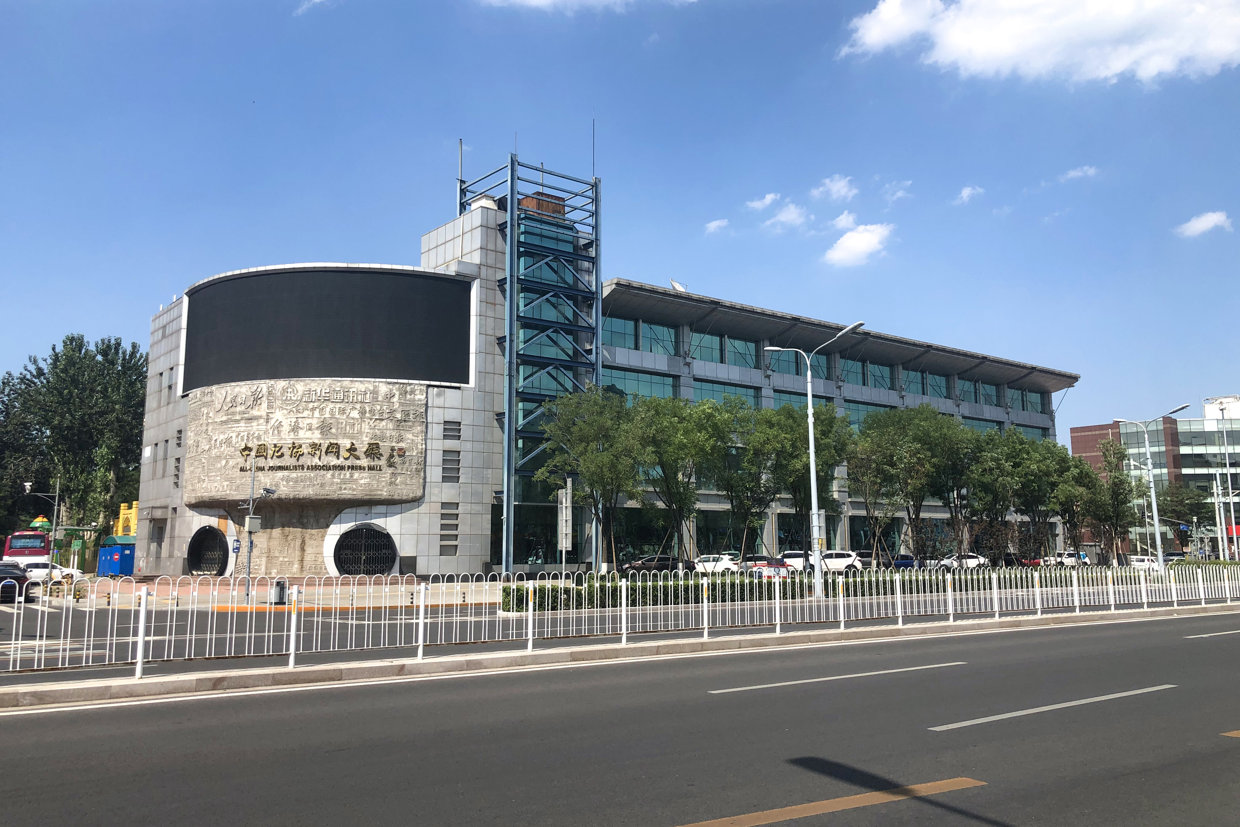 中国记协新闻大厅